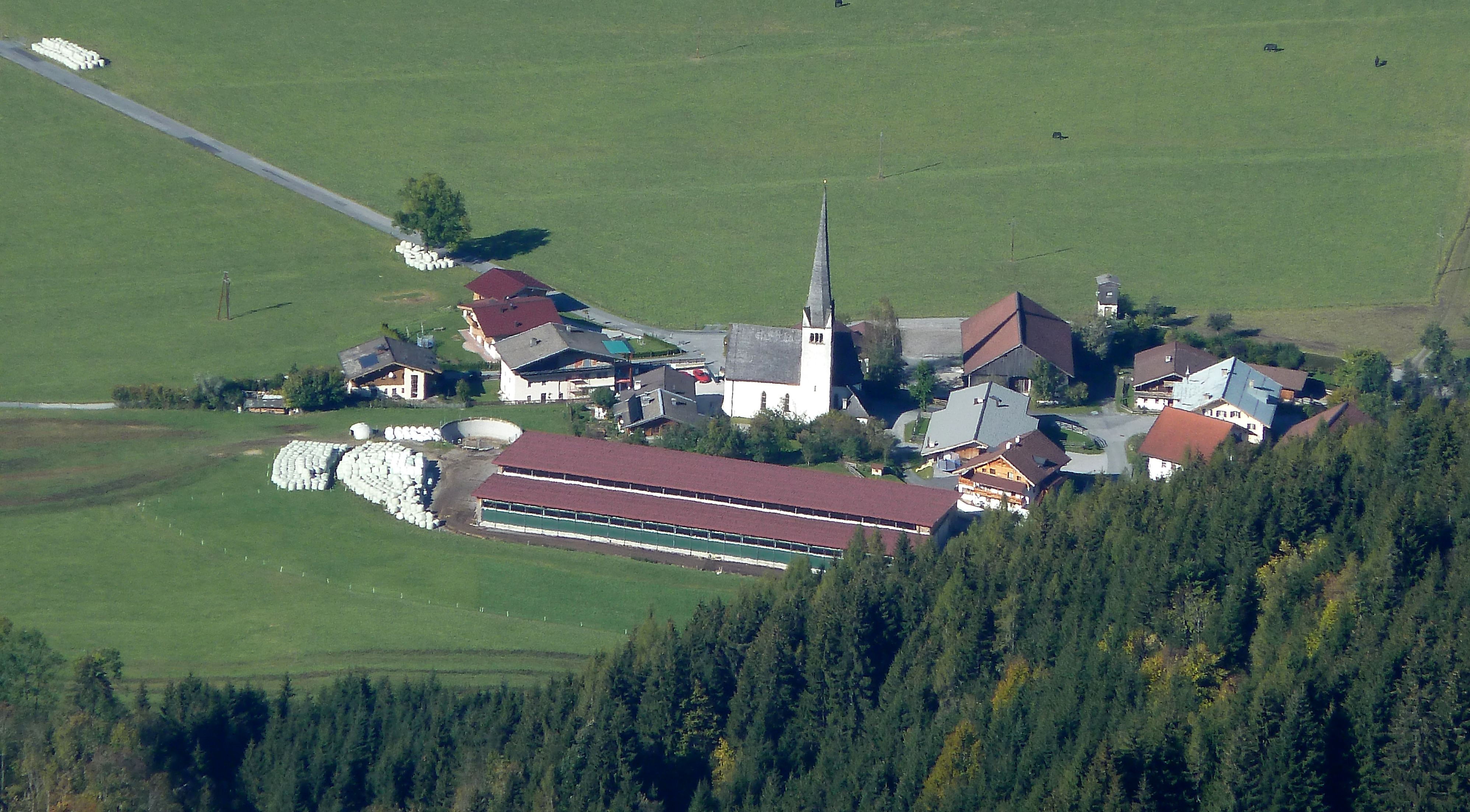 Gerling, village in Saalfelden, Pinzgau, Salzburg, Austria